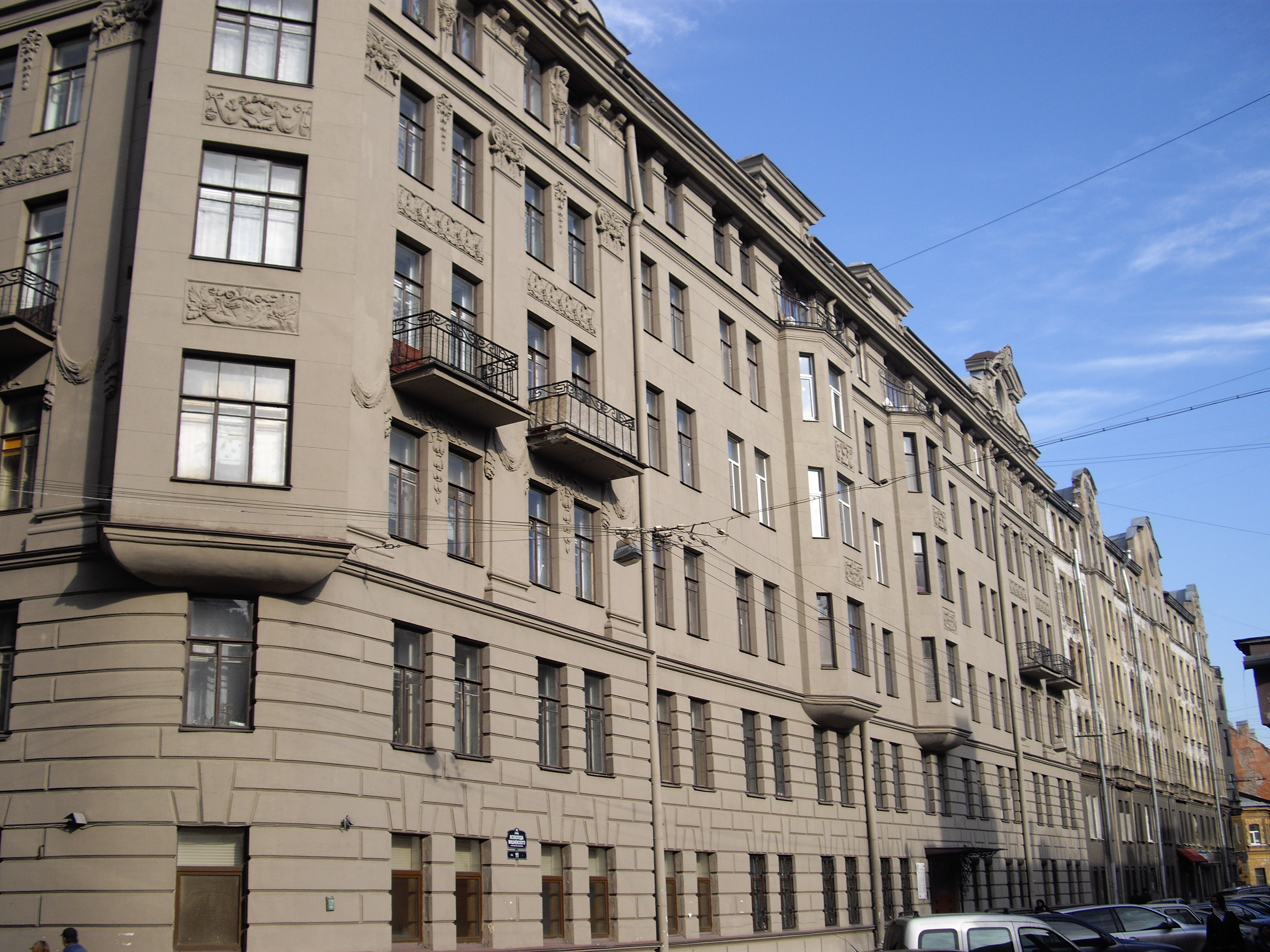 11, Vsevoloda Vishnevskogo Street in Saint Petersburg, Russia. The house where Valery Chkalov lived in 1927-1931.